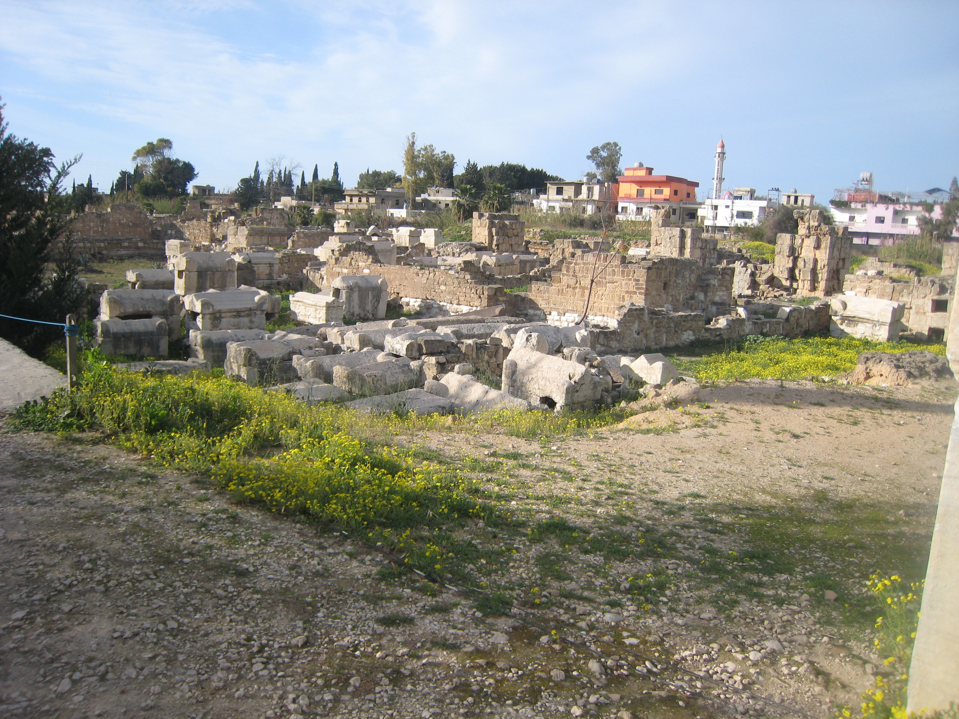 Tyre in Lebanon. Al Mina excavation site (and In the background, the Palestinian refugee camp)